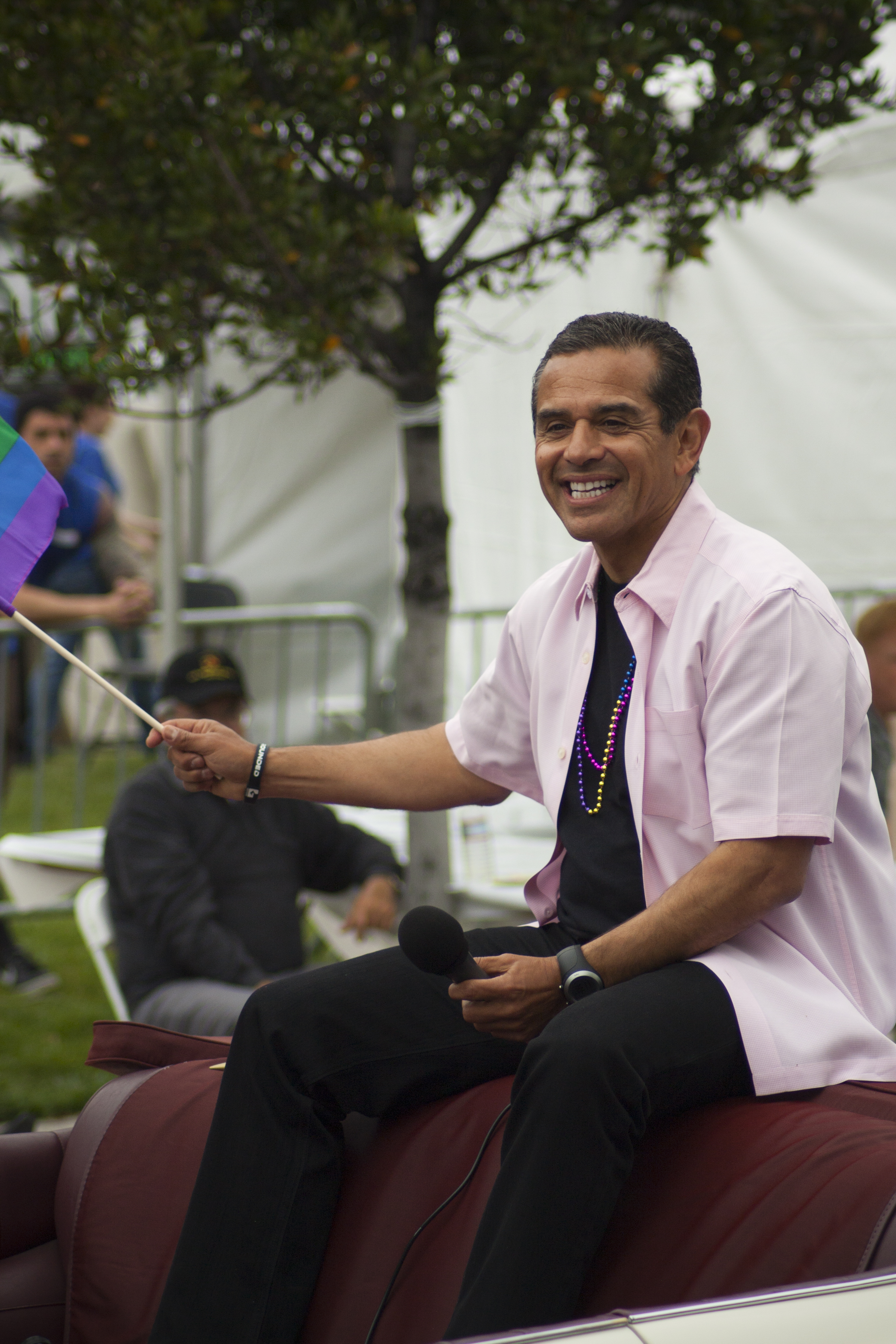 Antonio Villaraigosa at Los Angeles Pride 2011 (June 12).